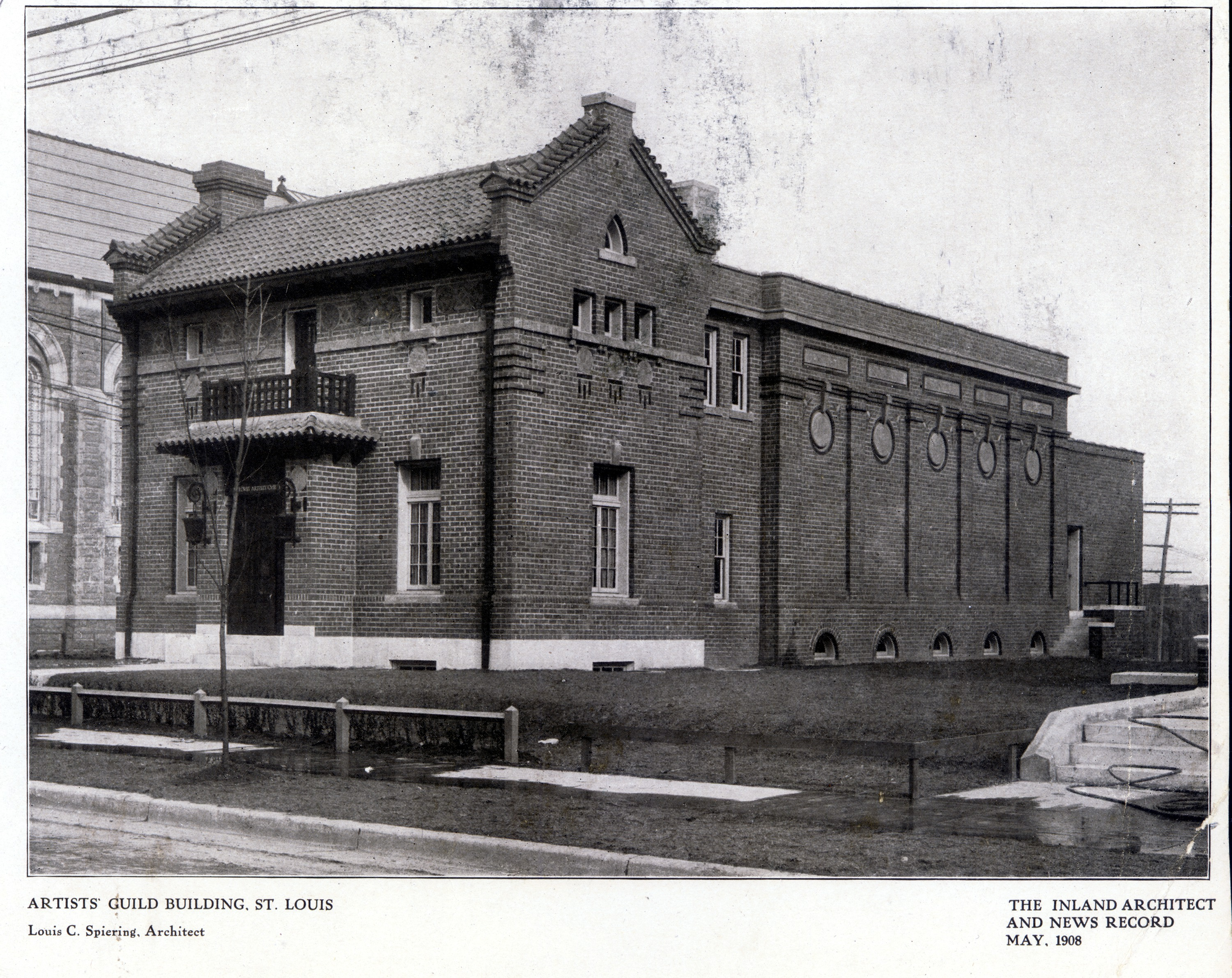 St. Louis Artist's Guild Building. Louis C. Spiering, Architect. Halftone from Inland Architect, May, 1908. Missouri Historical Society Photographs and Prints Collections. NS 28029. Scan (c) 2003, Missouri Historical Society.